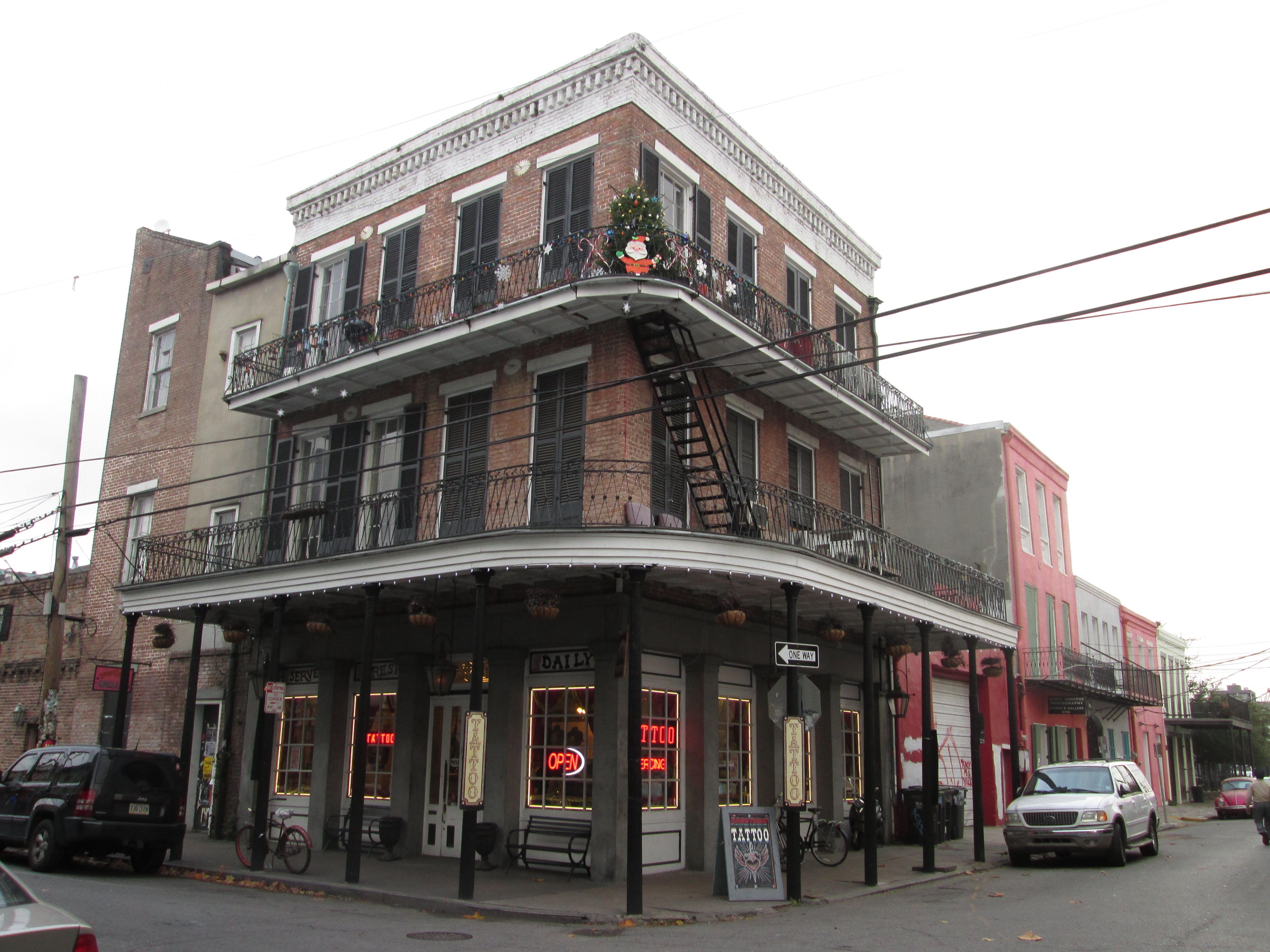 New Orleans. Downtown lake corner of Decatur & Frenchmen Streets, Faubourg Marigny.